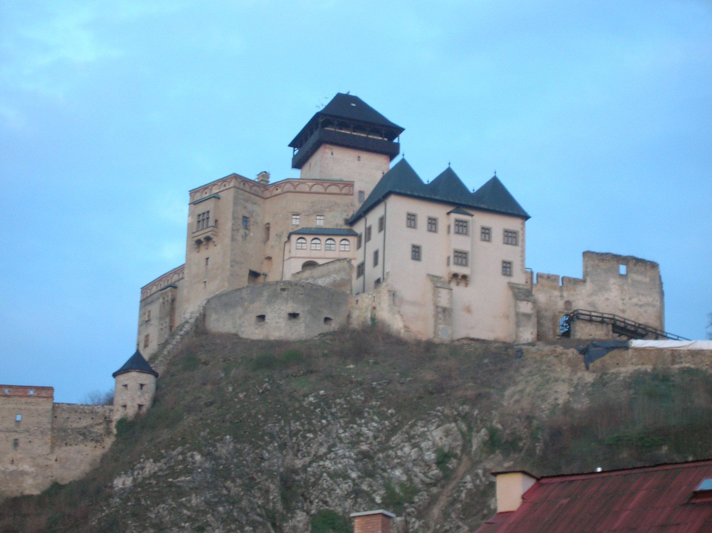 Trenčín Castle, view from the Peace square (Mierové námestie), Trenčín, Slovakia.